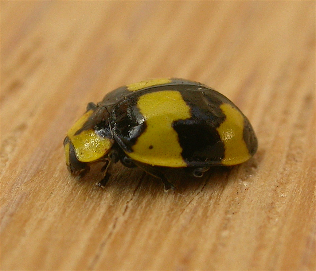 A Illeis galbula in Australia.